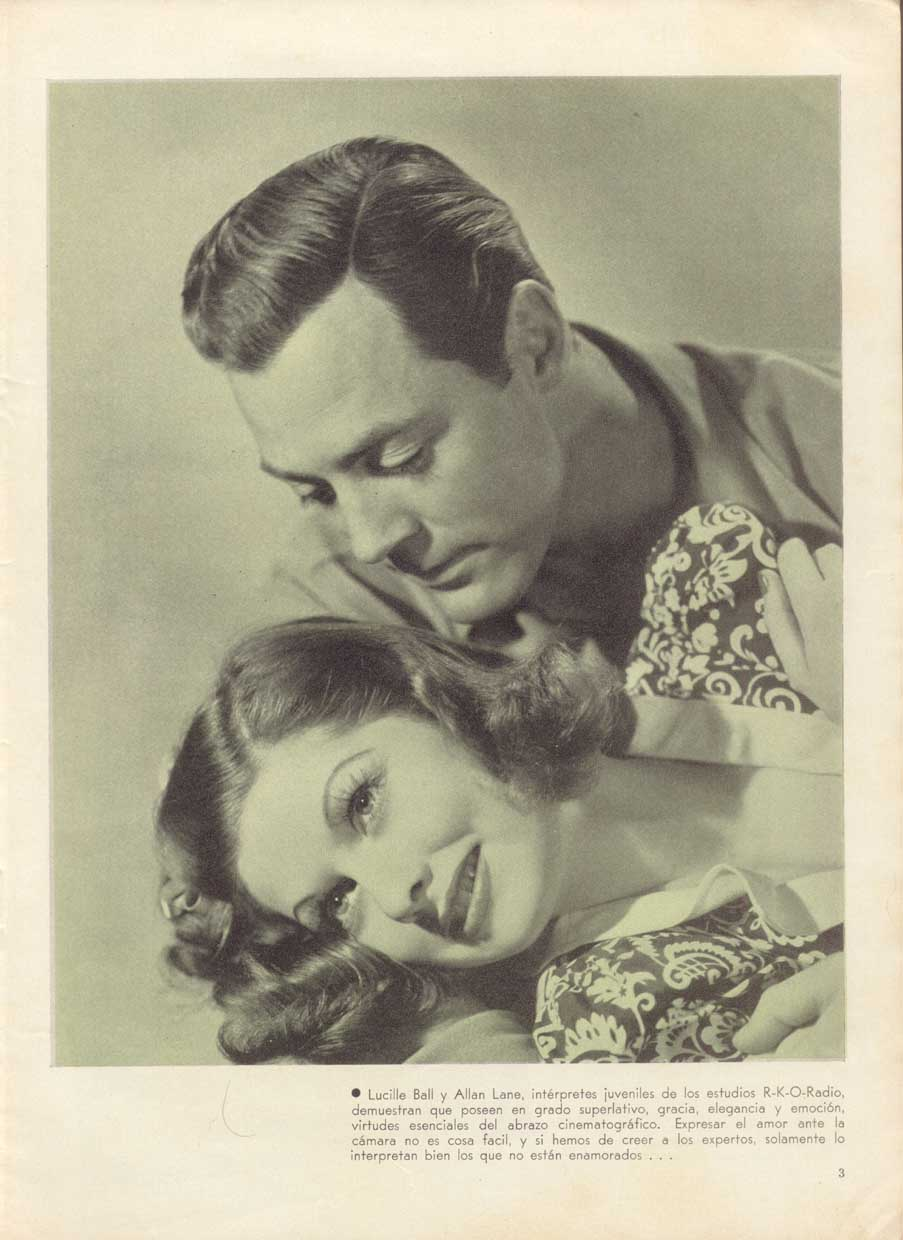 Publicity photo of Lucille Ball and Allan Lane in RKO film "Panama Lady" (1939) for Argentinean Magazine (Printed in USA)